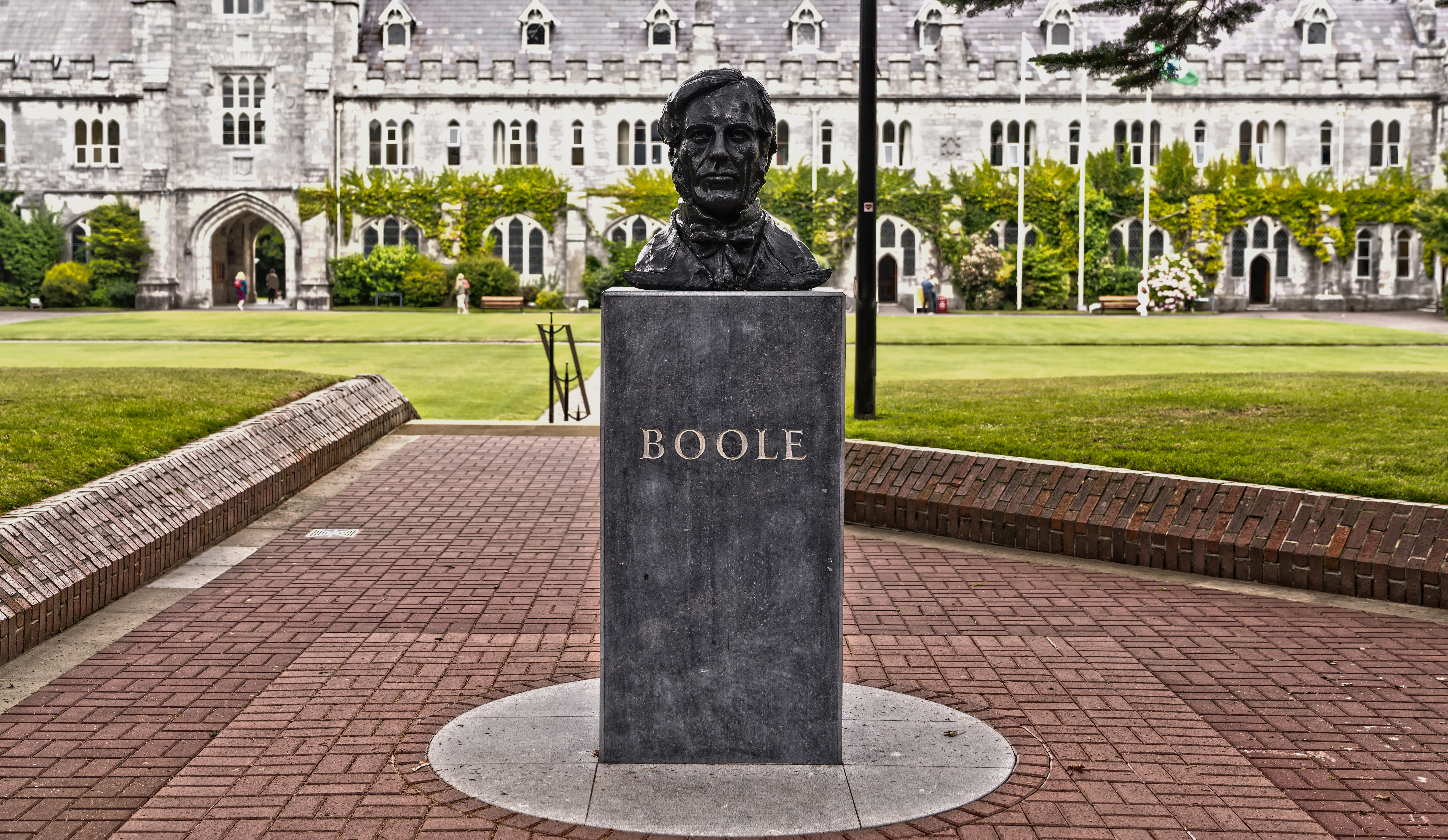 George Boole, first professor of Mathematics at Queens College Cork (later UCC) was born on the 2 Nov 1815 in Lincoln, England the eldest son of John Boole and his wife MaryAnn Joyce. He had 3 siblings Maryann (1818 –1887), Charles (1819 –1888) and William (1821 –1902).In 1855 he married Mary Ann Everest and they had 5 children, all daughters Mary Ellen (b. 1856), Margaret (b. 1858), Alice (b. 1860, Lucy (b. 1862) and Ethel (b.1864). Boole died prematurely in 1864 at his home in Ballintemple, Co. Cork aged only 49. He caught a severe chill from walking in the rain, which later turned into a lung infection, causing his death.